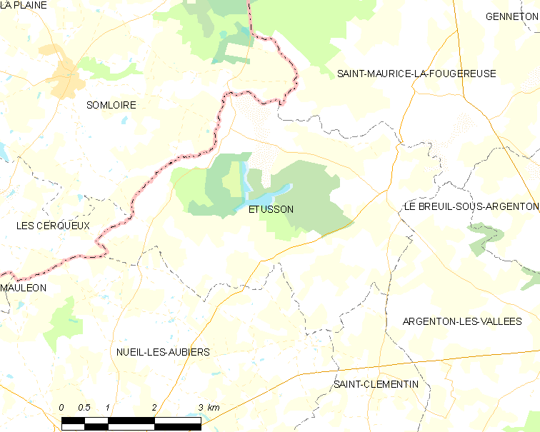 Map of French municipality Étusson